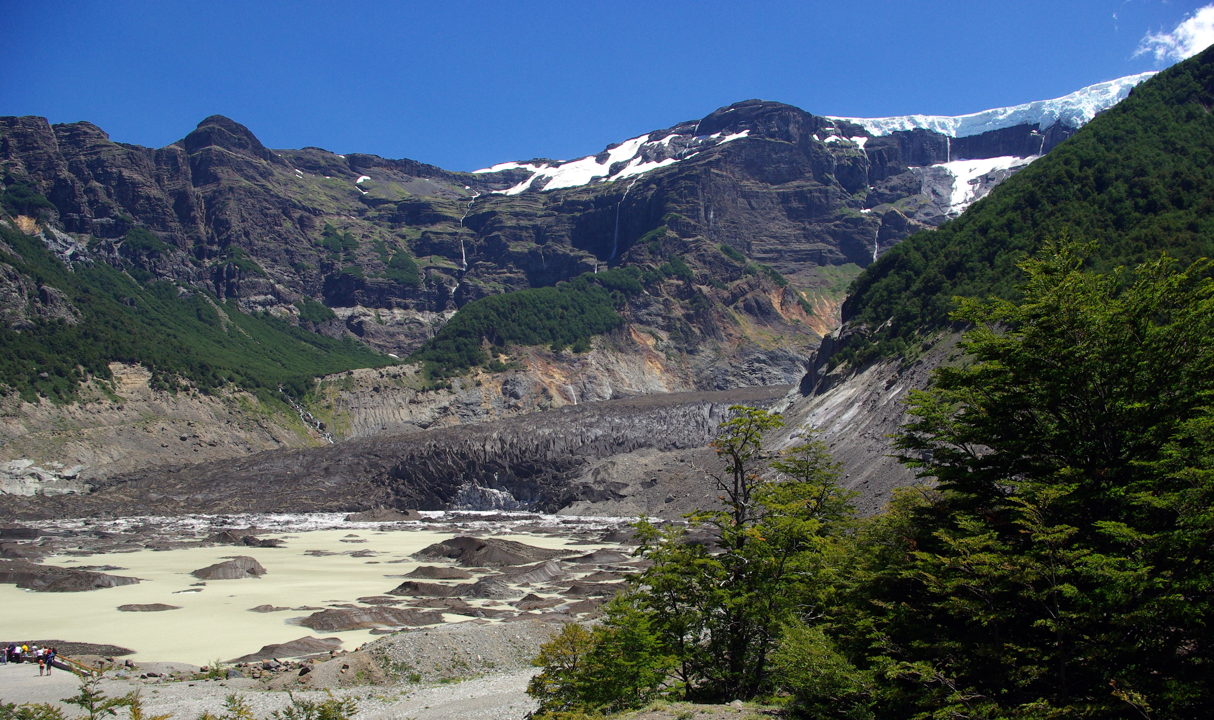 The glacier Ventisquero Negro in Nahuel Huapi National Park, Argentina. The glacier itself is the lumpy brown, white and black part in the centre of the image. Brown icebergs calved by the glacier float in the foreground to the left. The glacier Río Manso, which feeds Ventisquero Negro, is seen high up on the right hand side.